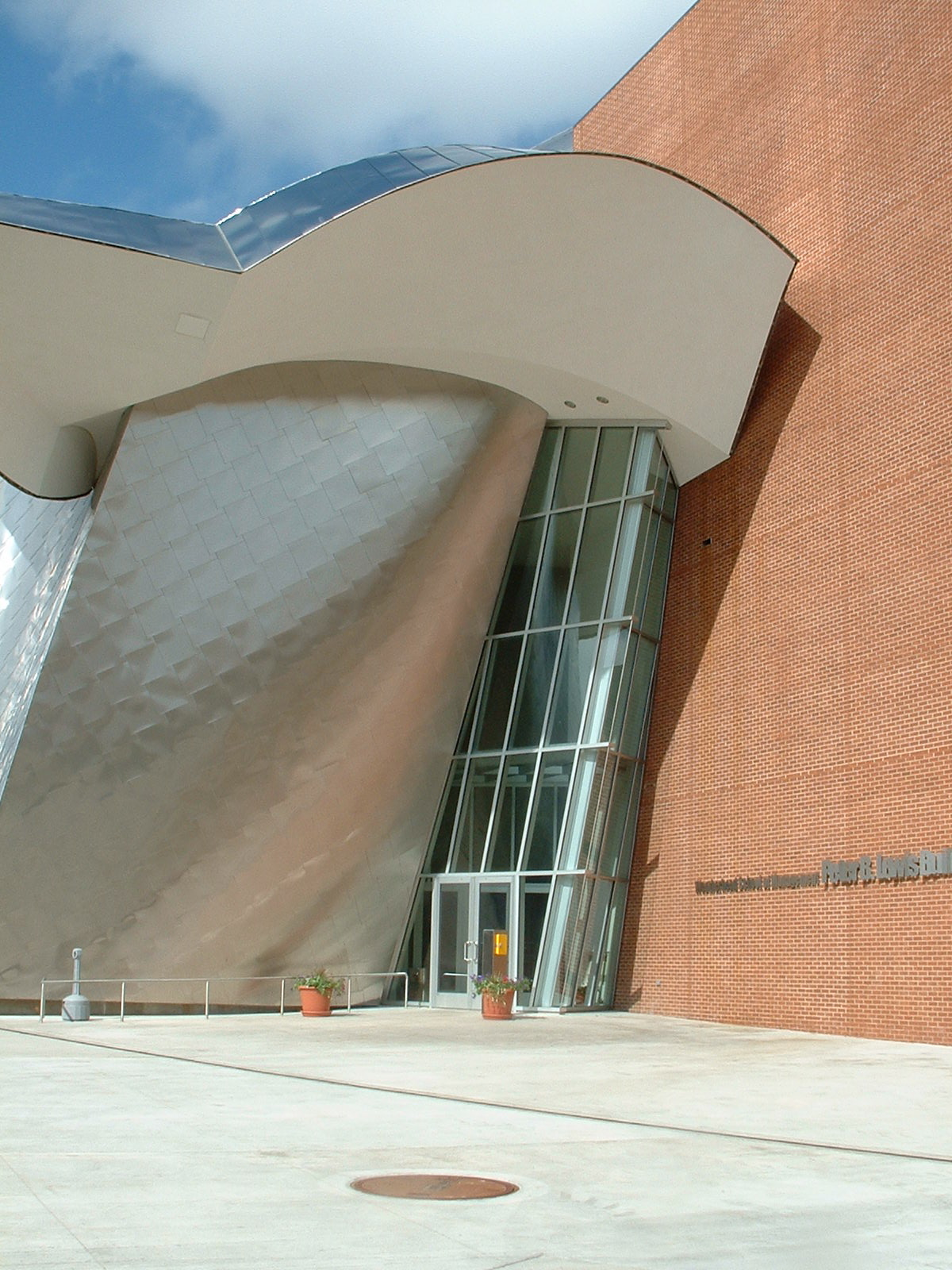 The entry to the Peter B. Lewis Building in Cleveland, OH. I took this photograph myself.